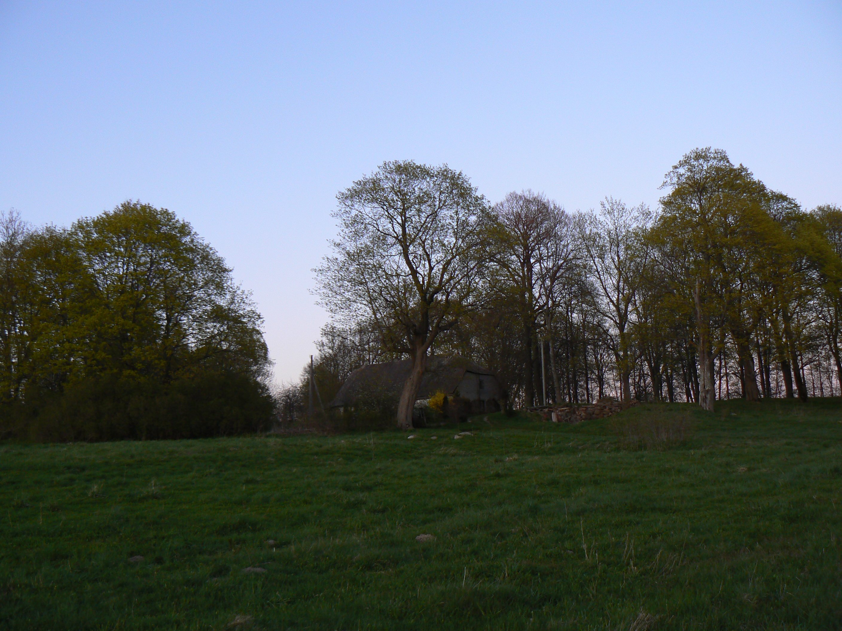 A house in Mažučiai